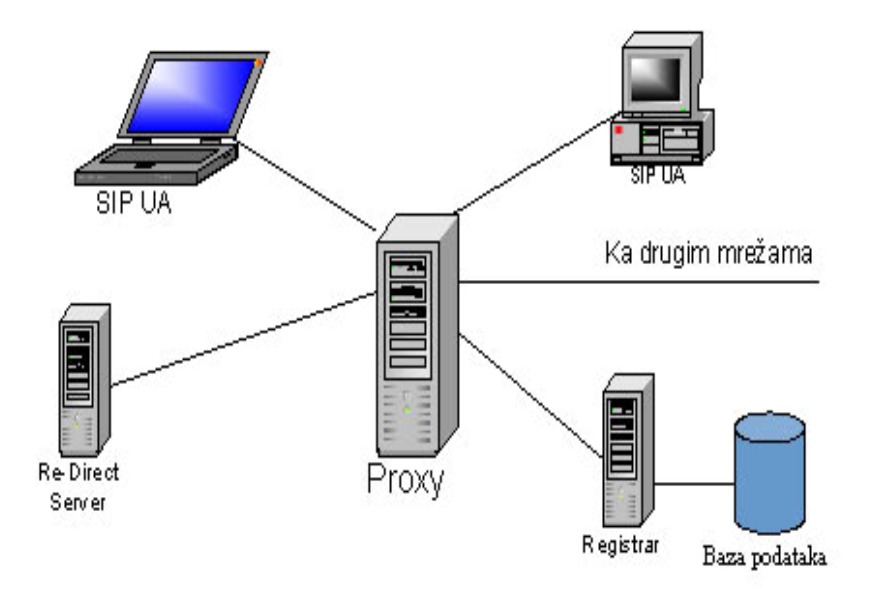 Proxy